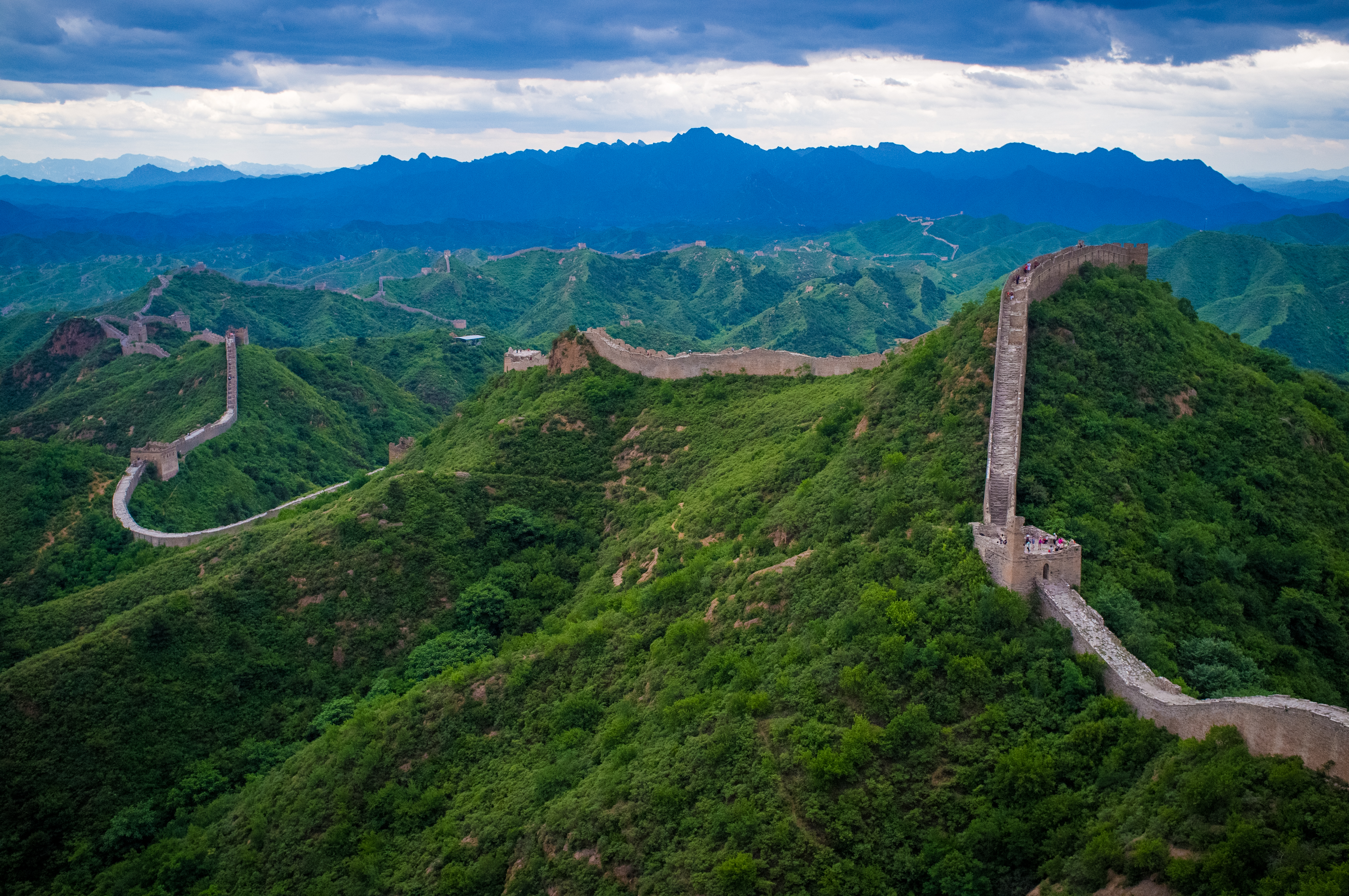 The Great Wall of China at Jinshanling